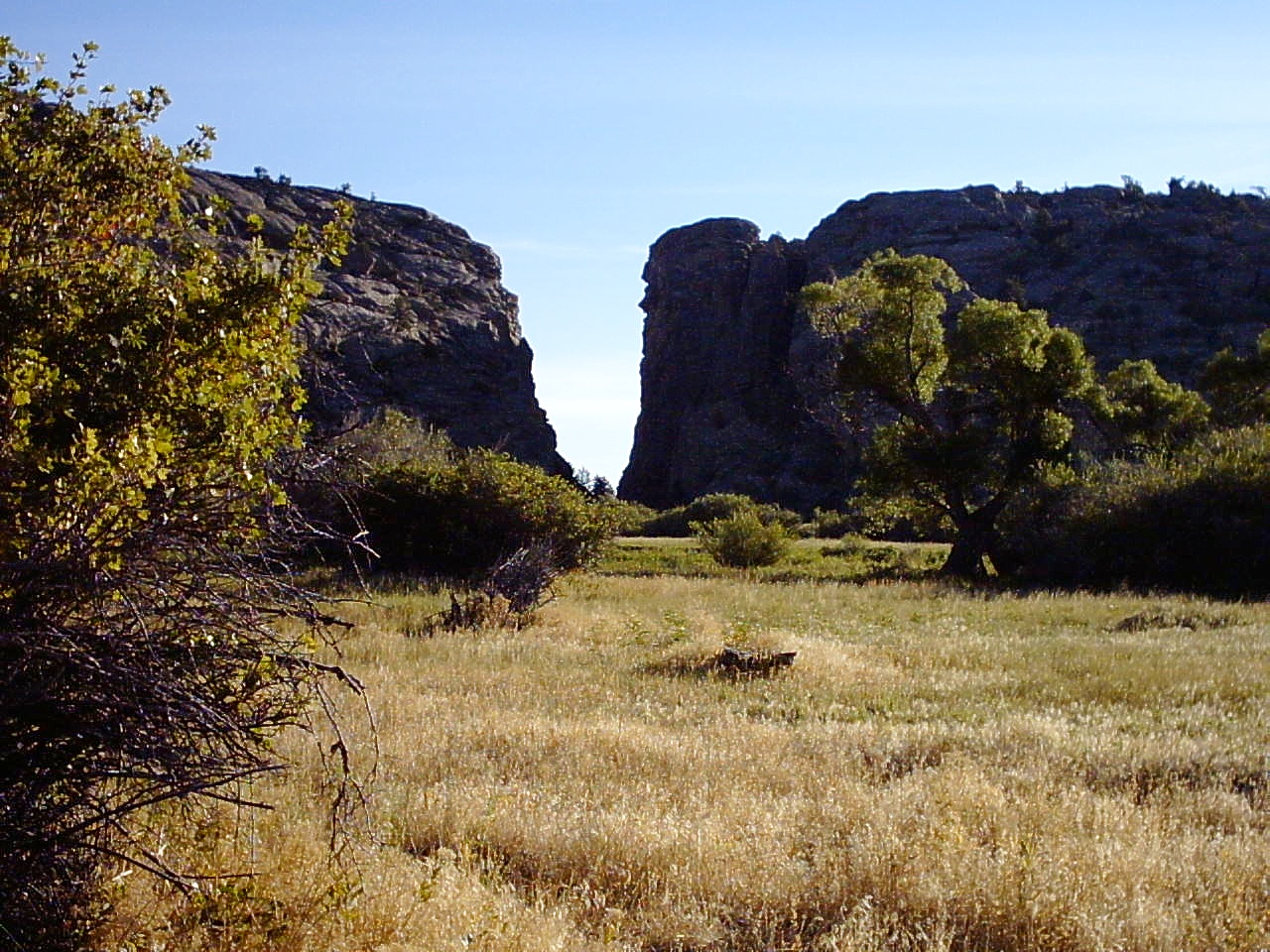 Photograph of Devil's Gate, Wyoming.